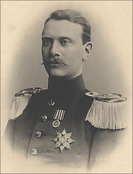 Photography of Frederick Hereditary Grand Duke (the later Frederick II, Grand Duke of Baden, 1857-1928) in field officer's uniform